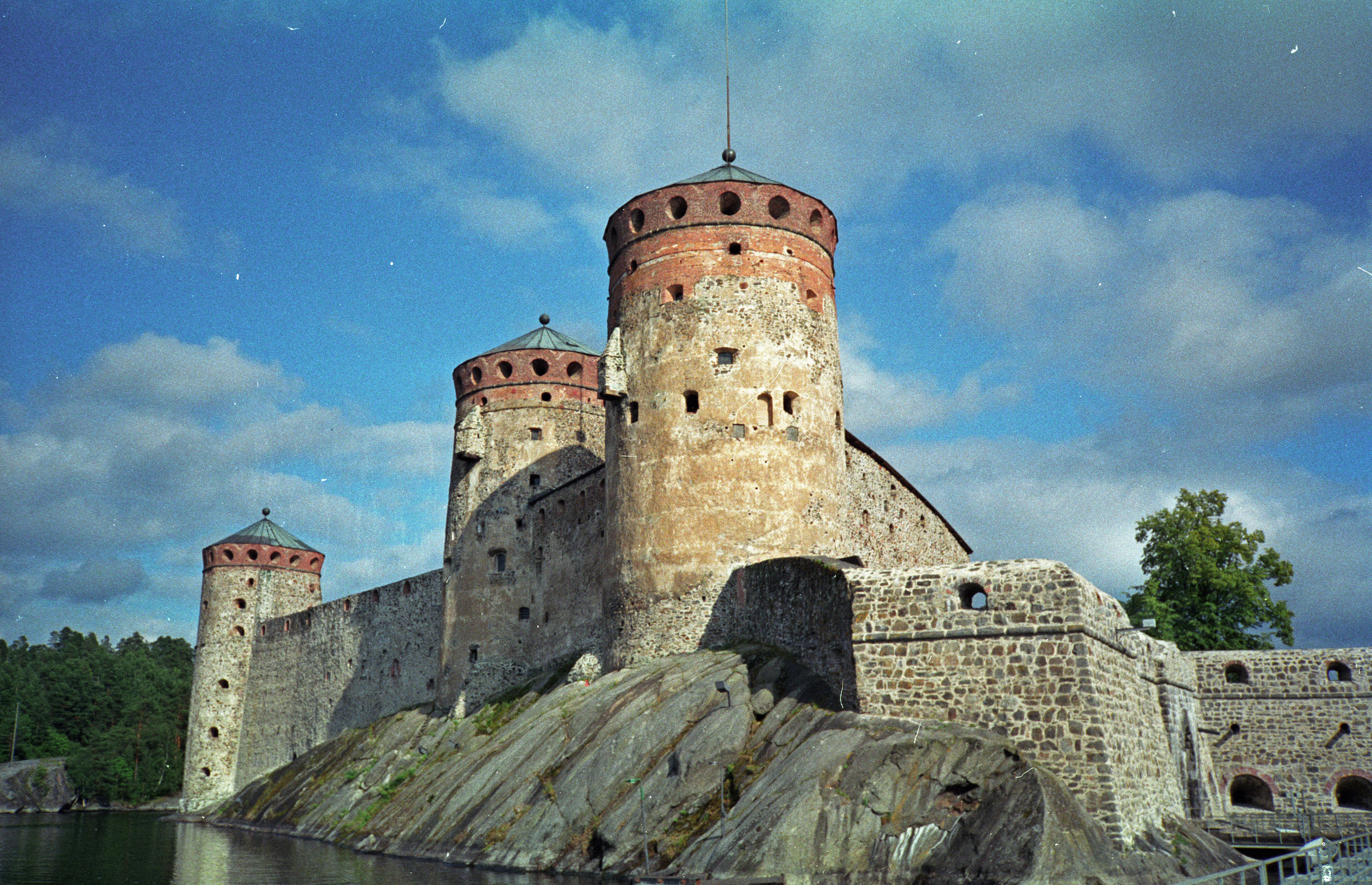 Olavinlinna castle, Finland in 1989